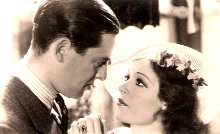 Jopie Koopman en Louis Borel